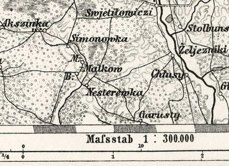 Ausg. 1874. Helioaravure in Kunfer (Preis 60 kg.). Vervielfaltiqt durch Umdruck vom Steine. Schnellpressen – Druck. Mafsstab 1:300.000.